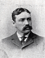 Fred Churchill Leonard, US Representative from Pennsylvania